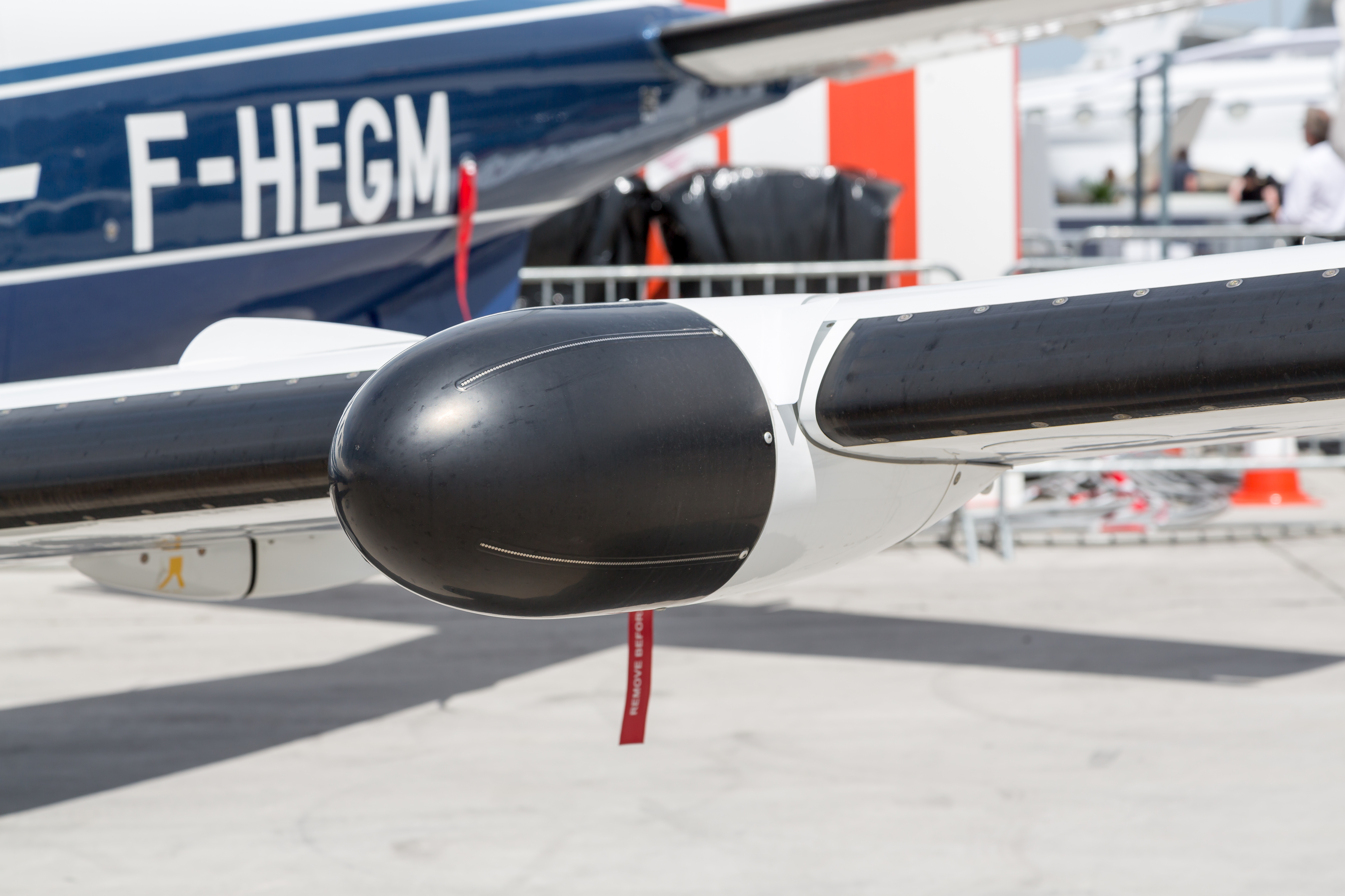 Static display preview, EBACE 2018